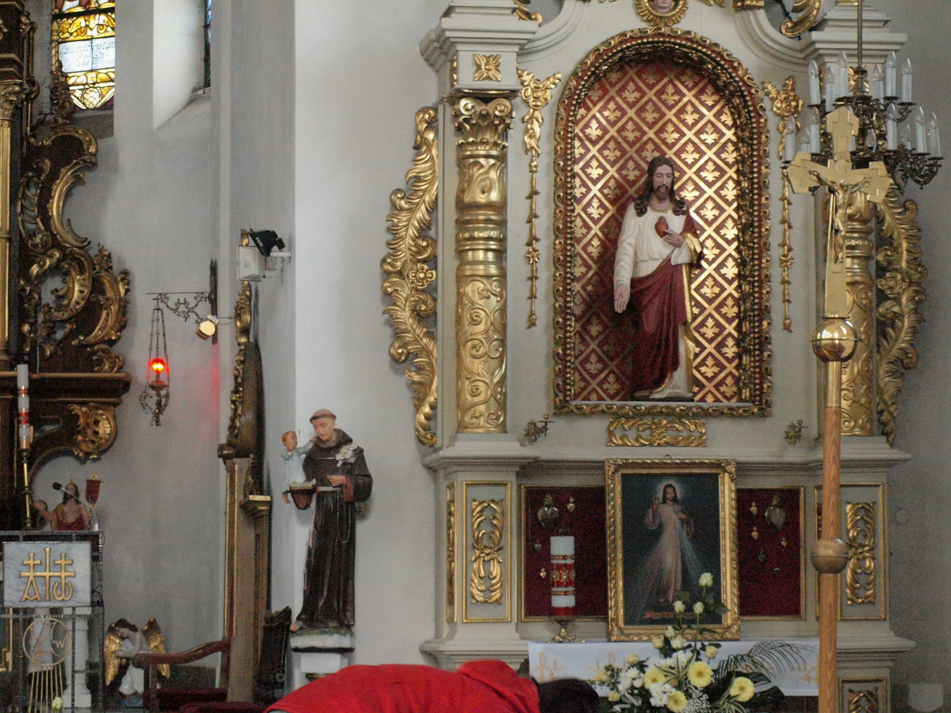 Samocice, parish church of St. Bartholomew right altar